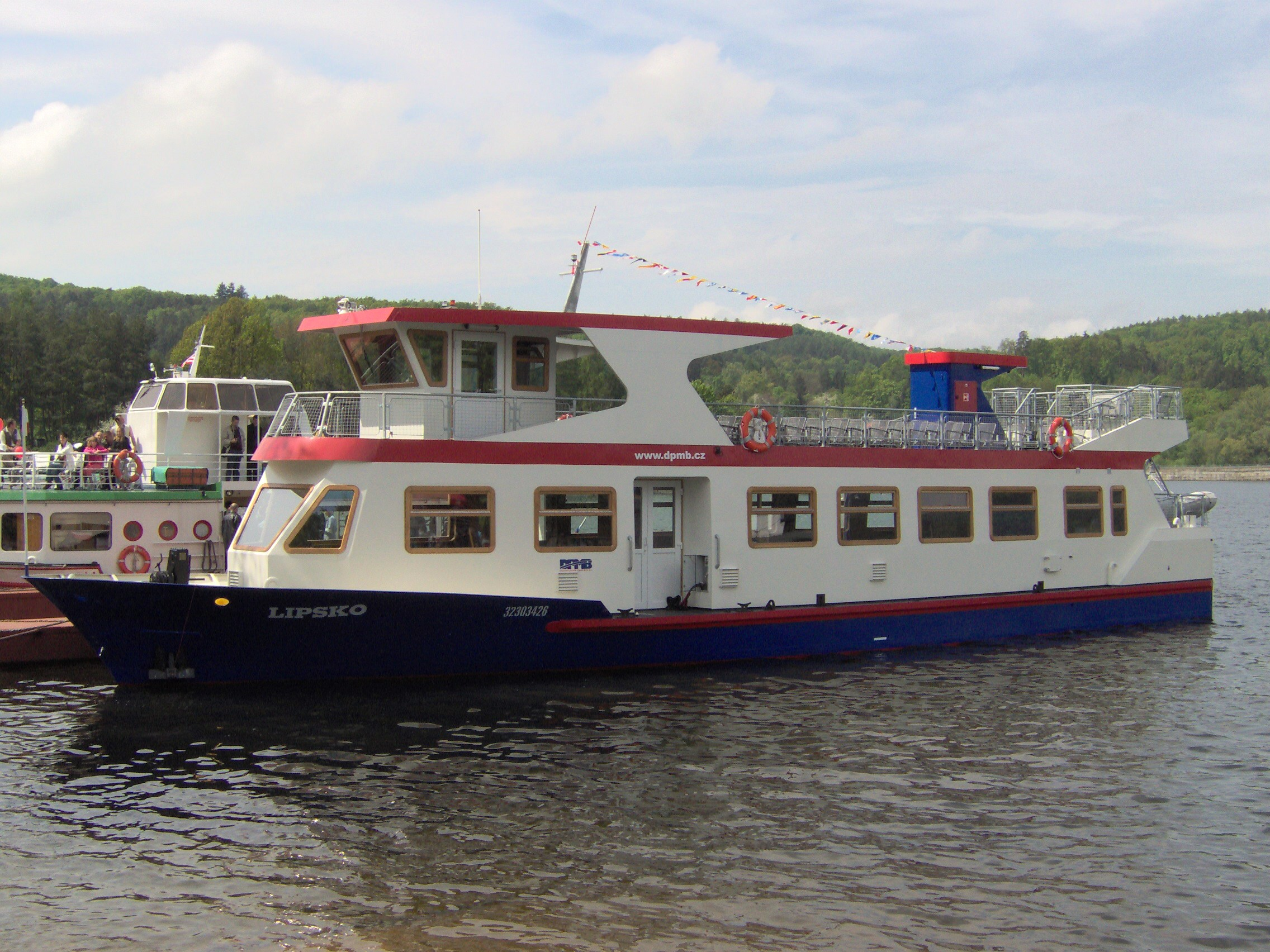 Lipsko ship, Bystrc, Brno, Czech Republic